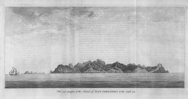 [Illustrations de A Voyage round the world in the years MDCCXL, I, II, II, IV. By George Anson. Compiled... by Richard Walter] / J. Mason, grav. ; Richard Walter, aut. du texte Éditeur : J. and P. Knapton (london) 1748. Present day Robinson Crusoe Island, in the Archipielago Juan Fernandez, Chile.